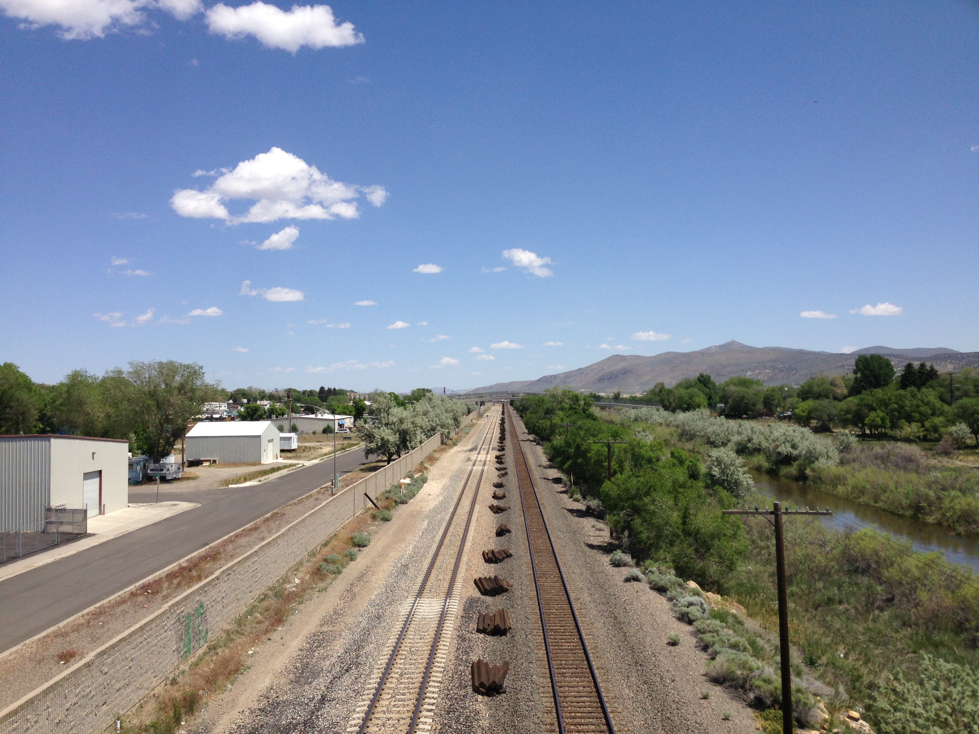 View east along the Union Pacific Railroad from the 5th Street Bridge in Elko, Nevada